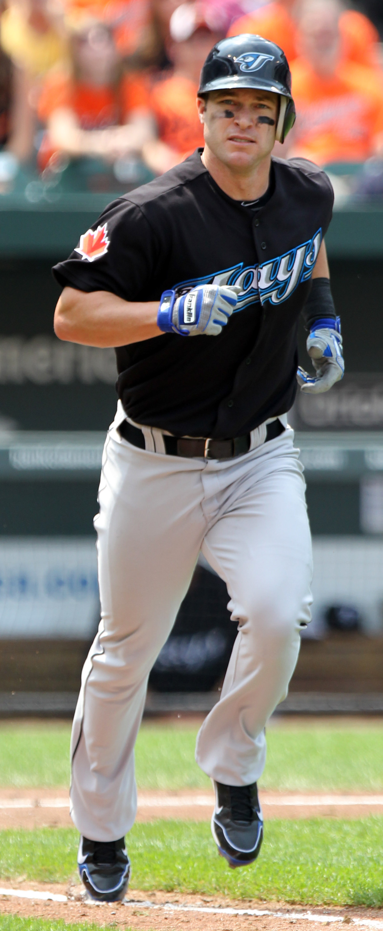 Jayson Nix